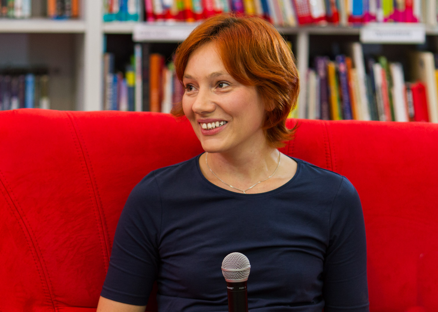 Justyna Bargielska on Authors’ Reading Month 2015, Wrocław, Poland.